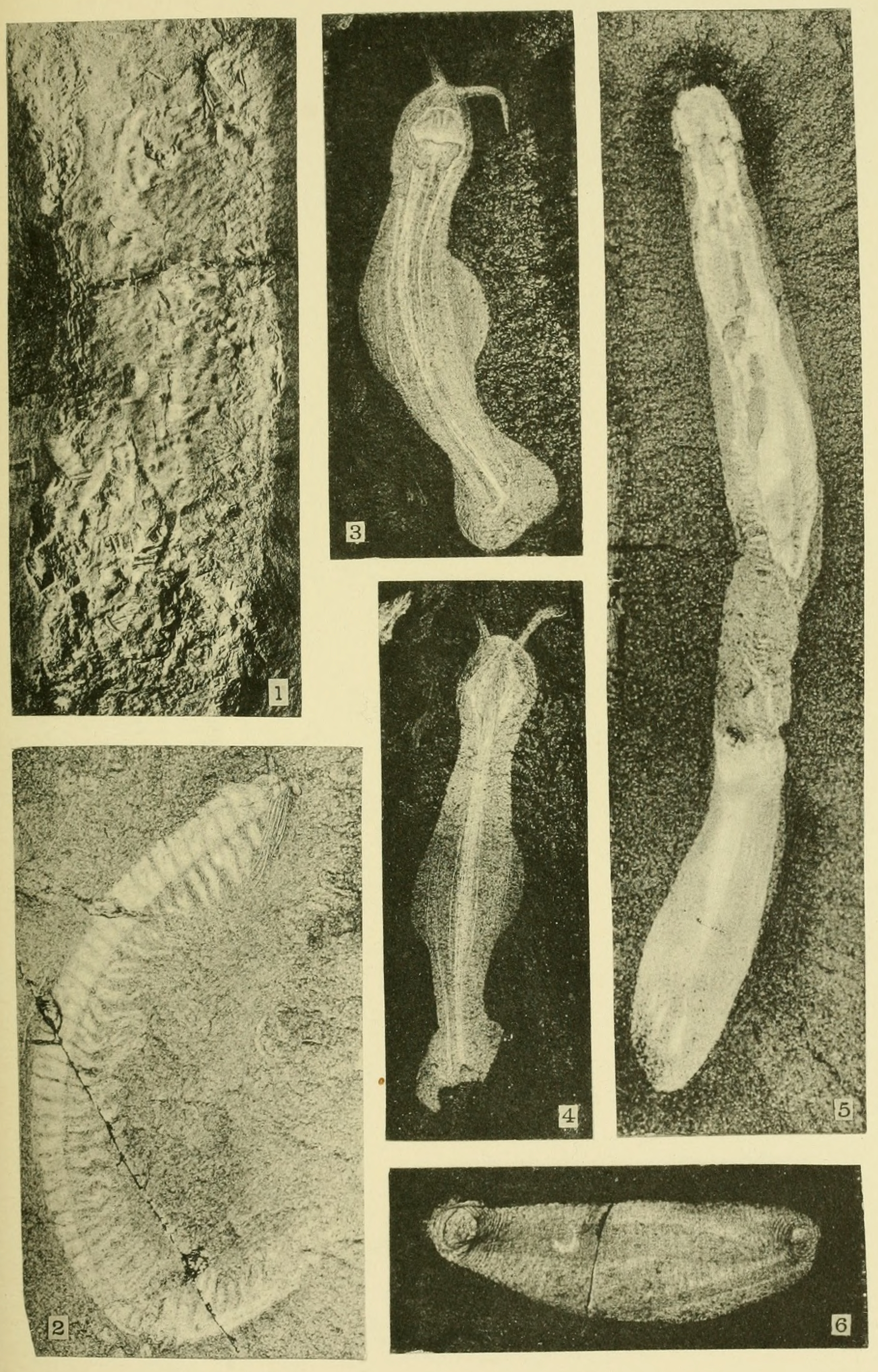 Plate 22: Middle Cambrian Annulata (Planolites, Worthenella, Amiskwia, and Ottoia) 1. Planolites sp. ? = 2. Worthenella cambria Walcott = 3. Amiskwia sagittiformis Walcott = 4. Amiskwia sagittiformis Walcott = 5. Ottoia minor Walcott = 6. Ottoia minor Walcott =